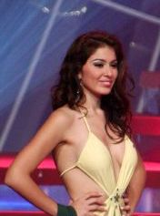 Miss Earth 2007 Swimsuit